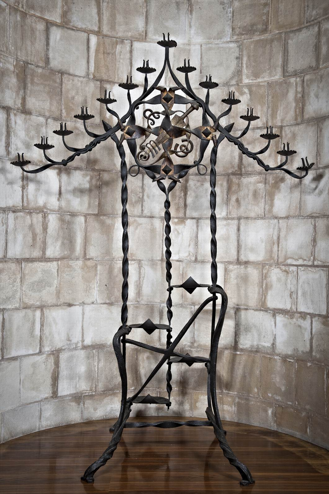 Wrought iron tenebrae hearse designed by Gaudí